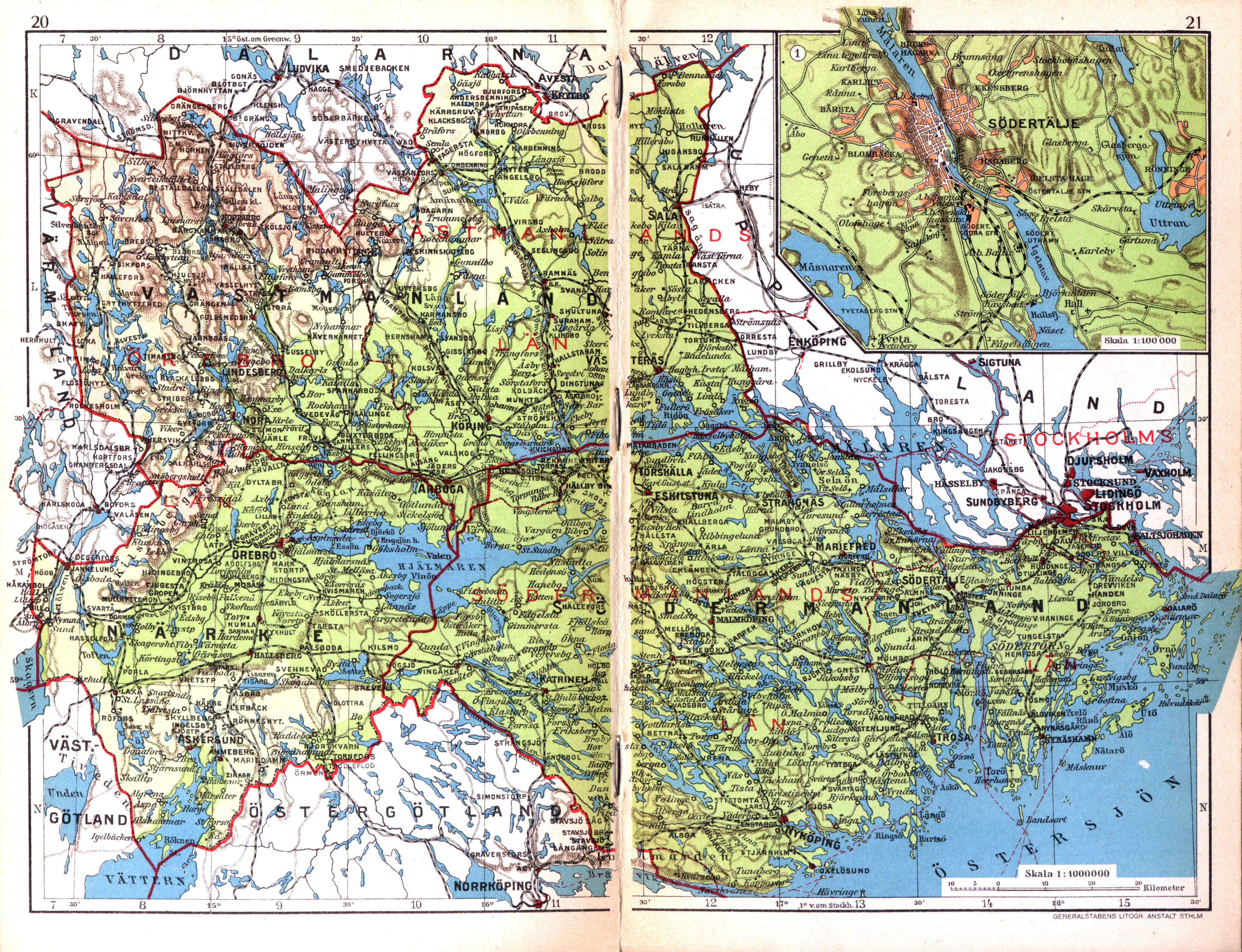 Map of provinces Närke, Södermanland, Västmanland in Sweden.